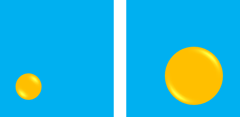 El volumen un objeto depende del entorno